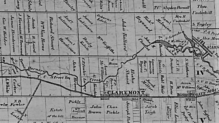 portion of 1858 map showing village of Claremont, now Burford, Ontario